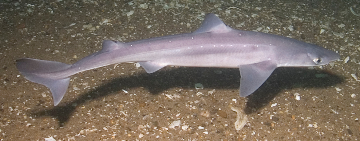 Spiny dogfish (Squalus acanthias) at the Josephine Marie shipwreck, Stellwagen National Marine Laboratory (cropped and adjusted from original).